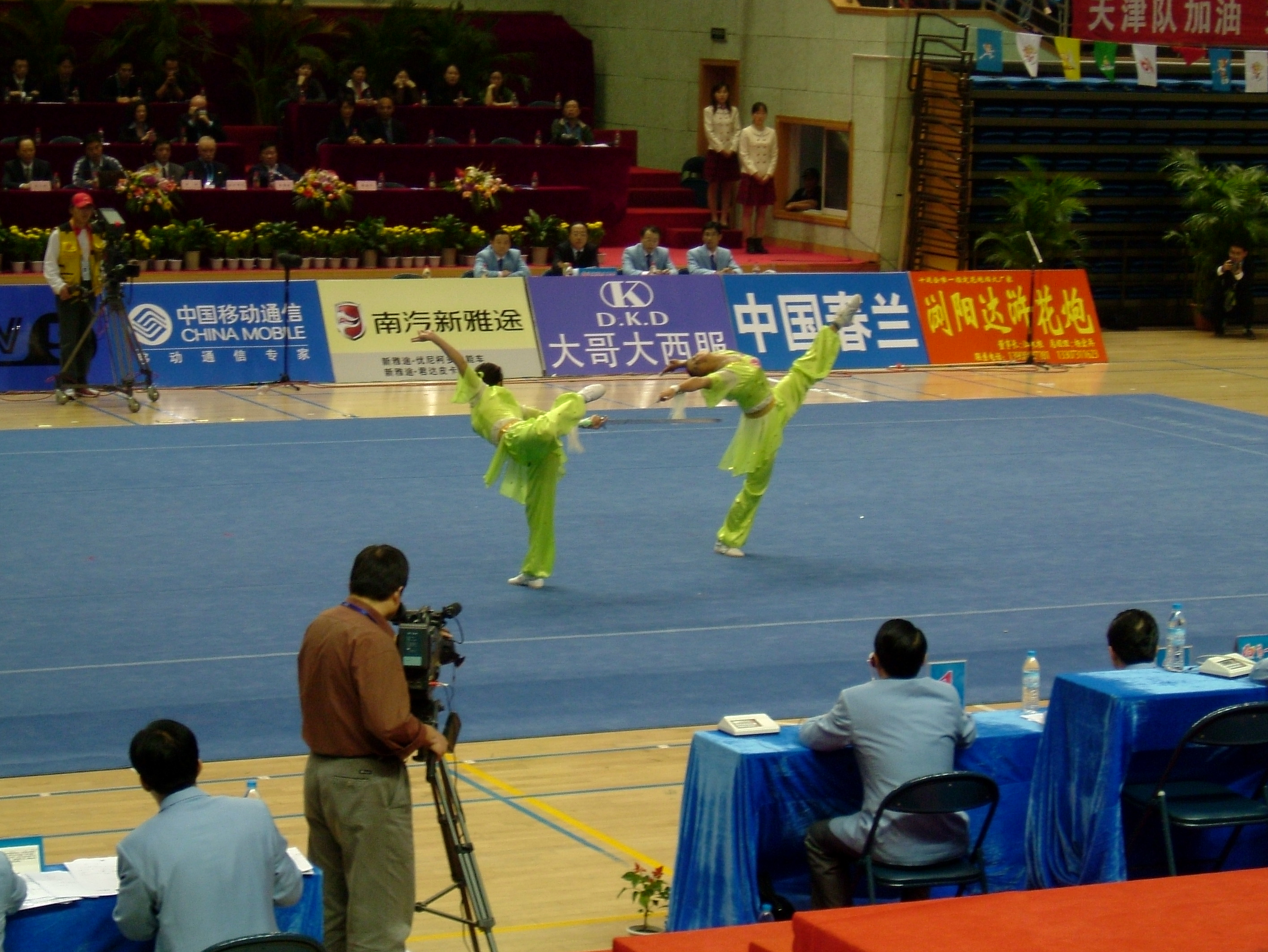 Jian event at the 10th All China Games.